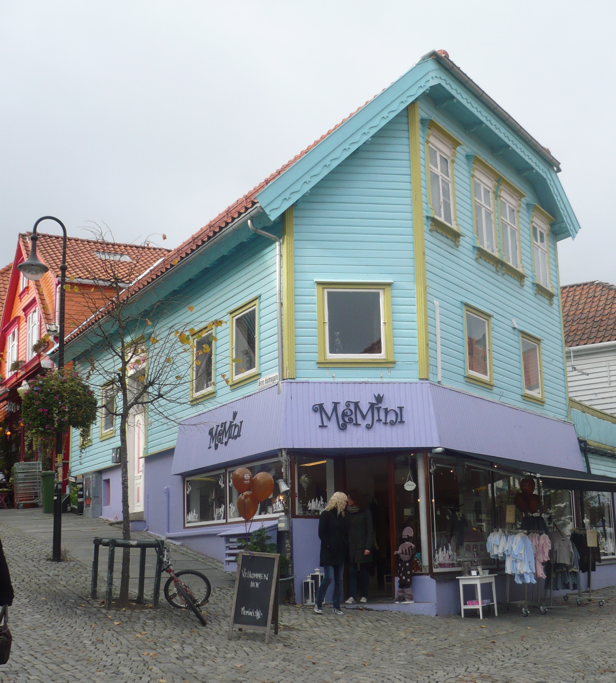 House on the corner of Østervåg and Øvre Holmegate in Stavanger